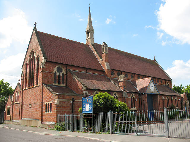 Church of the Ascension Newham